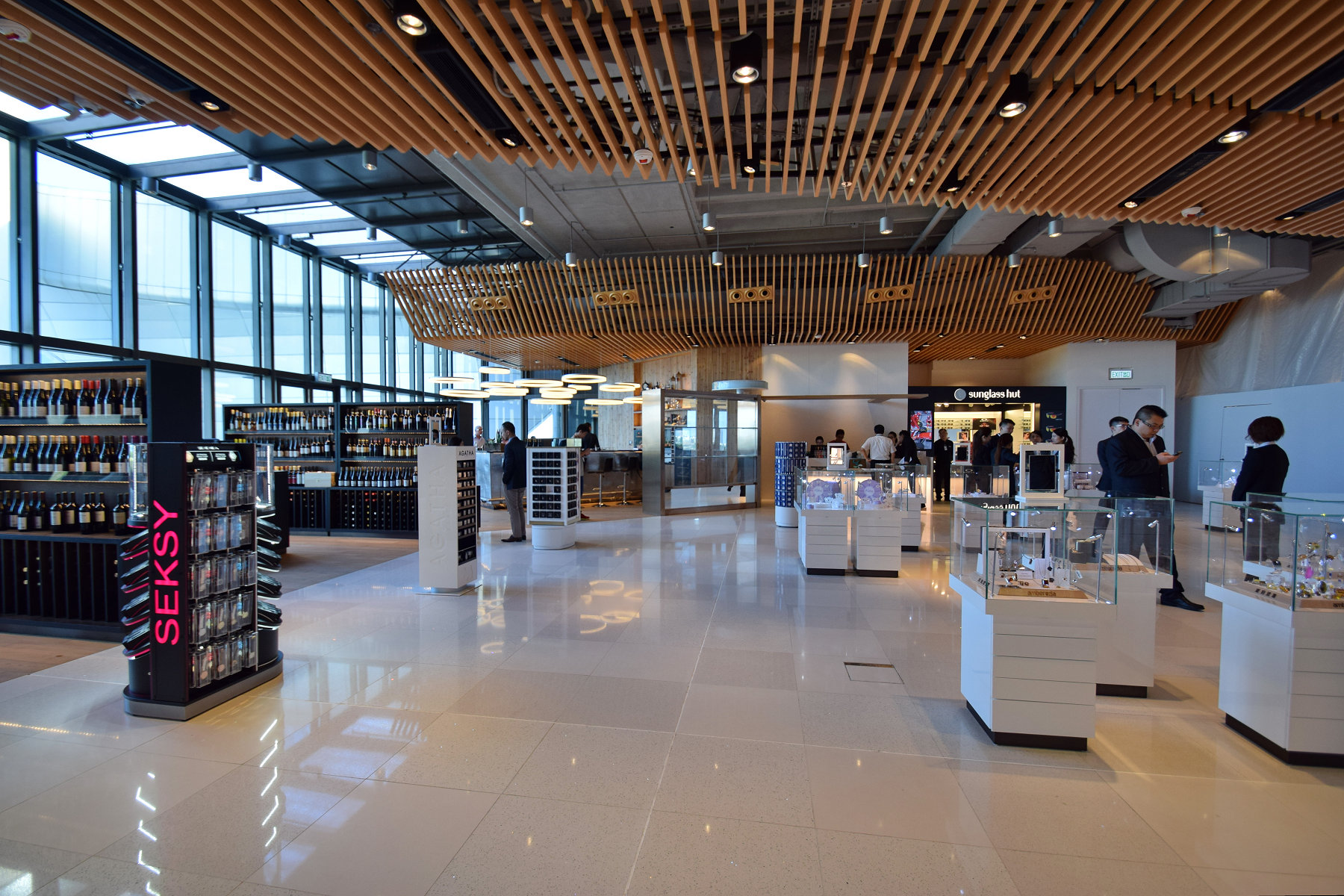 HKCruise Plaza (ceased), Kai Tak Cruise Terminal